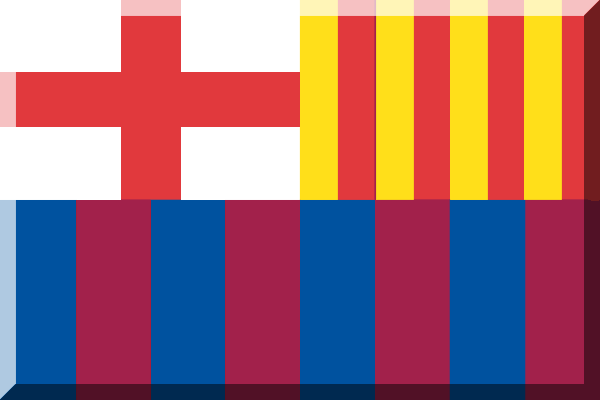 Fantasy sport flag for Barcelona teams